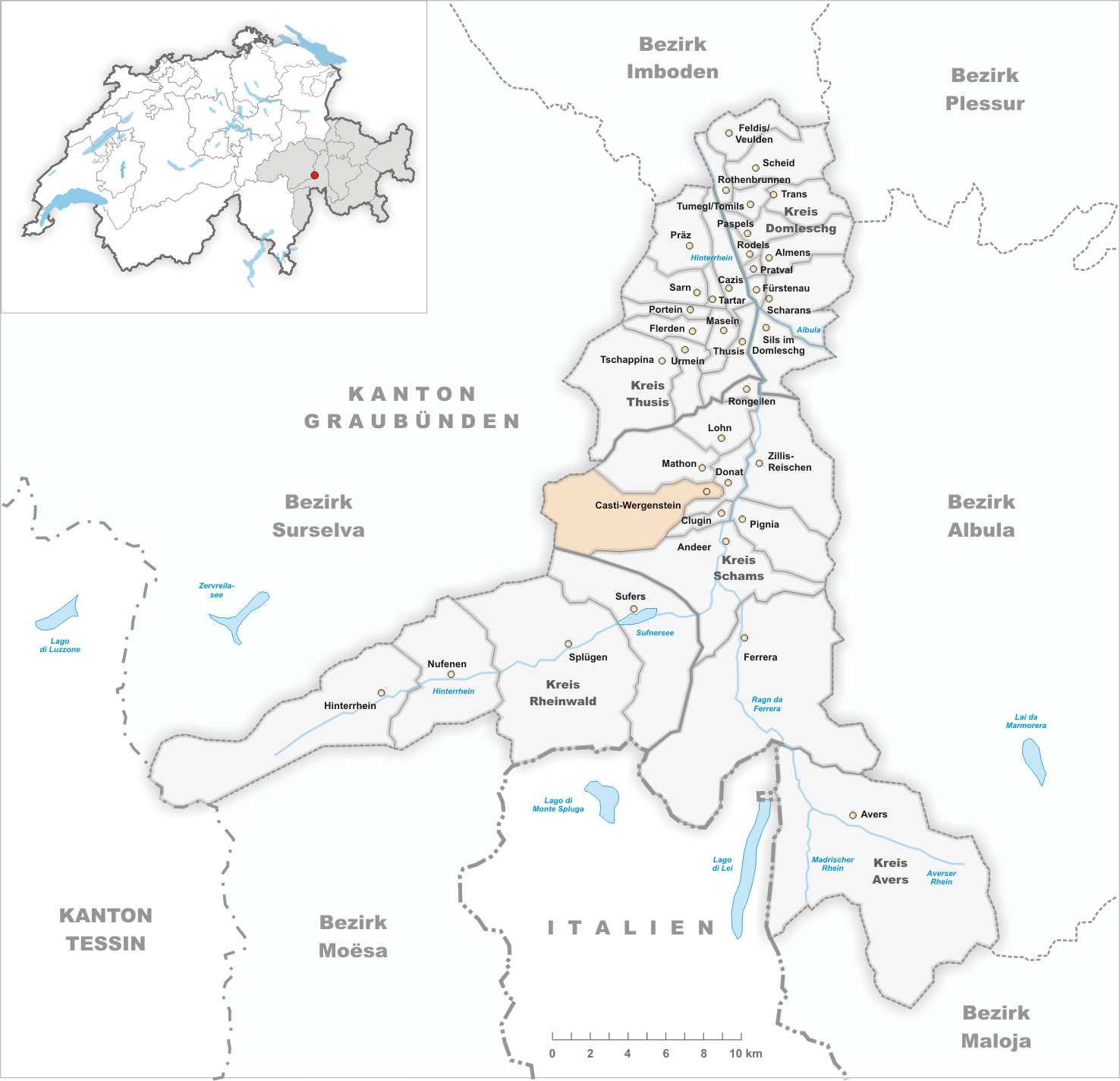 Municipality Casti-Wergenstein